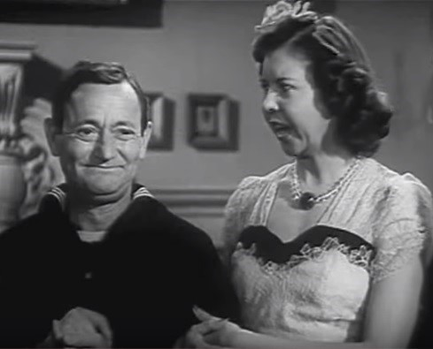 Roscoe Karns & Mary Treen in The Navy Way - cropped screenshot